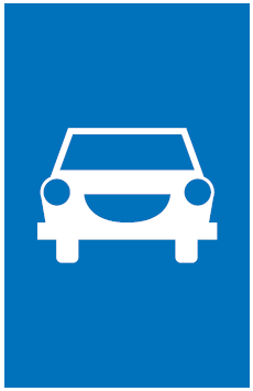 Diagram of road signs of Luxembourg